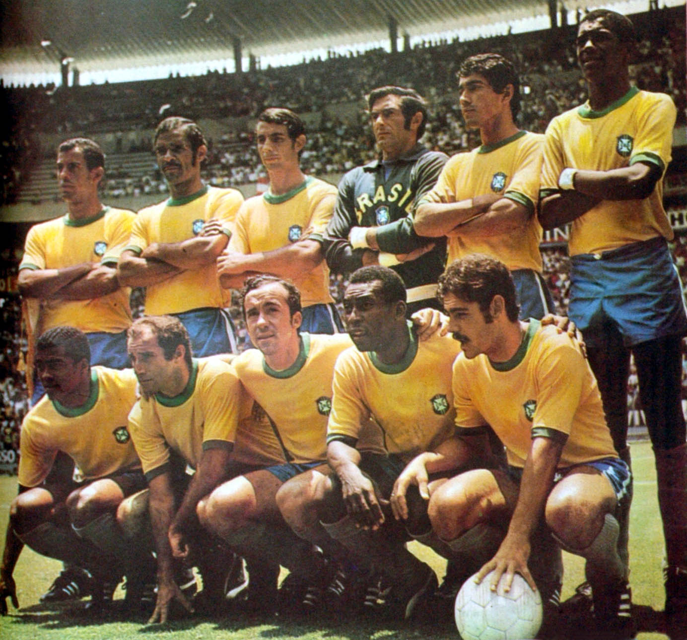 Brazilian team before the match against Peru at the 1970 World Cup (Brazil won 4-2). The same players would play the final against Italy. From left to right, (stading): Carlos Alberto Torres, Brito, Piazza, Félix, Clodoaldo, Everaldo; (seated): Jairzinho, Gérson, Tostão, Pelé and Rivelino.